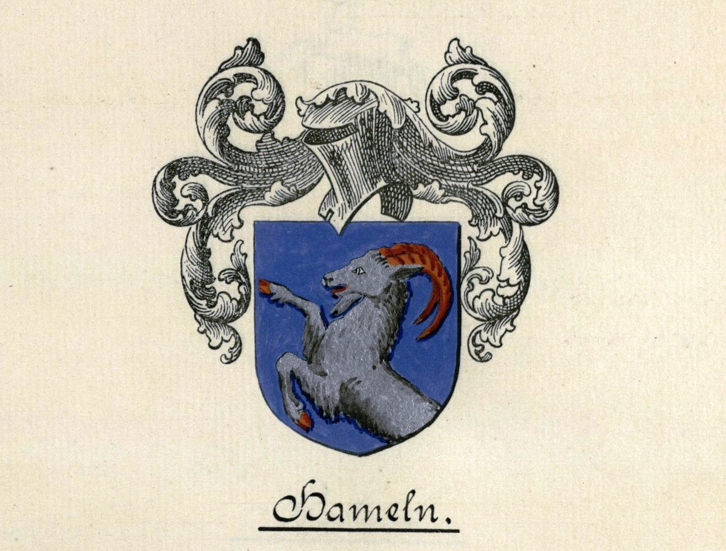 Coat of arms of the Hameln family from Braunschweig (as depicted in Carl Kämpe’s “Braunschweiger Wappenbuch”). Braunschweig Archives’ signature: H III 3: 4.1